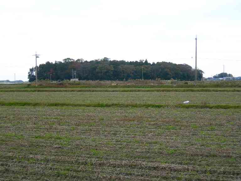 Kan-omi-hatadono-jinja is a facility for weaving sacred hemp for Ise Shrine at Iguchinaka-cho, Matsusaka city, Mie prefecture Japan.